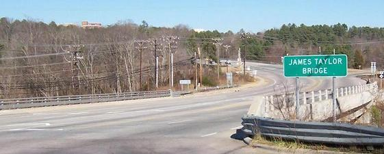 The bridge takes US-15 / US-501 over Morgan Creek, just south of where those concurrent highways cross NC-54. This photo is looking roughly north, towards downtown Chapel Hill. The picture was taken in late December of 2004, so the trees are right much barren of leaves.